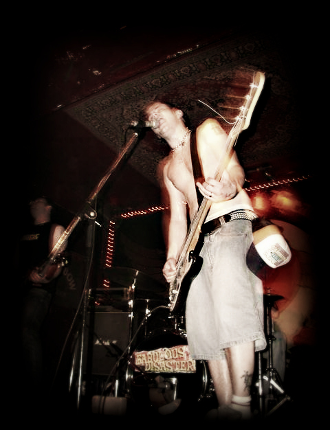 Wildatheart3